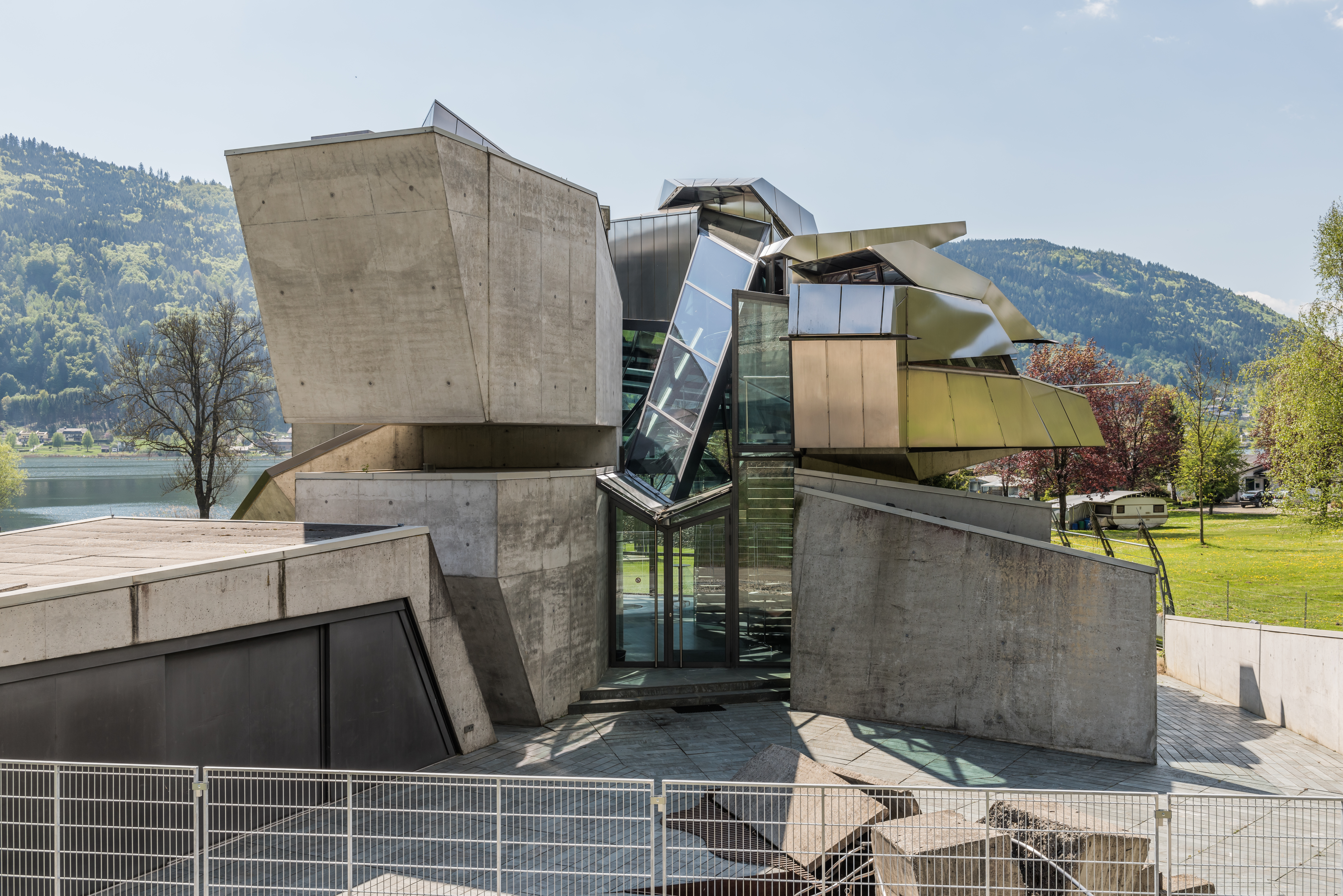 Stonehouse (architectural design by Guenther Domenig) on Uferweg #31, municipality Steindorf am Ossiacher See, district Feldkirchen, Carinthia, Austria, EU